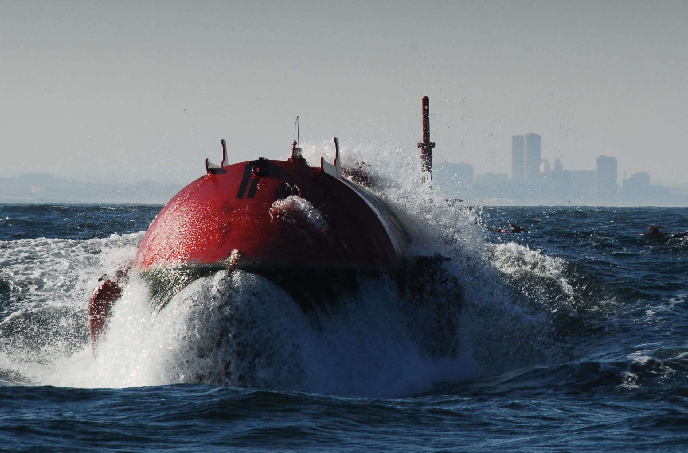 One of three Pelamis machines bursts through a wave at the Aguçadoura Wave Park off Portugal